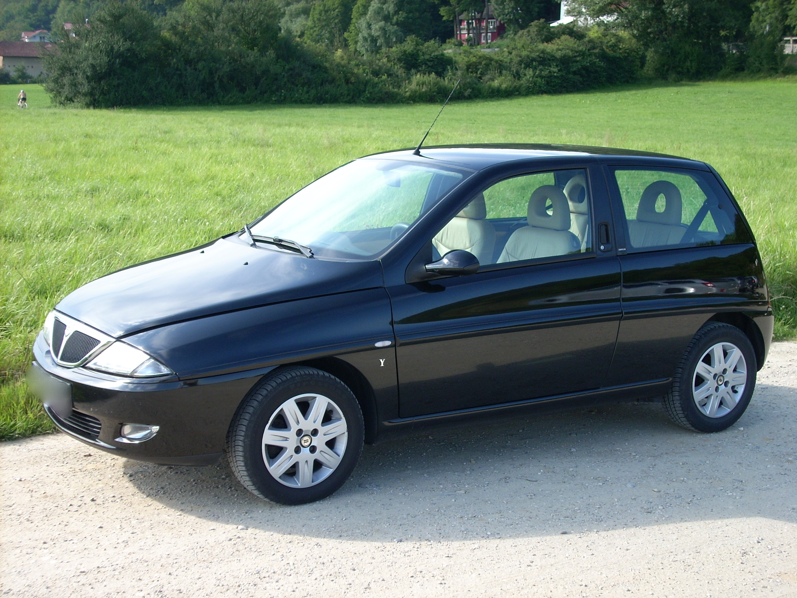 Lancia Y Cosmopolitan